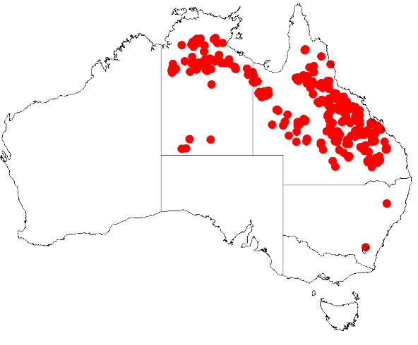 Acacia shirleyii Occurrence data from Australasia Virtual Herbarium downloaded from on 8 December 2018